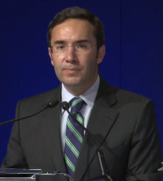 Jorge Moreira da Silva, Portuguese Minister of the Environment, Territorial Planning and Energy, delivers the keynote speech at the World Water Congress in Lisbon on 21 September 2014.